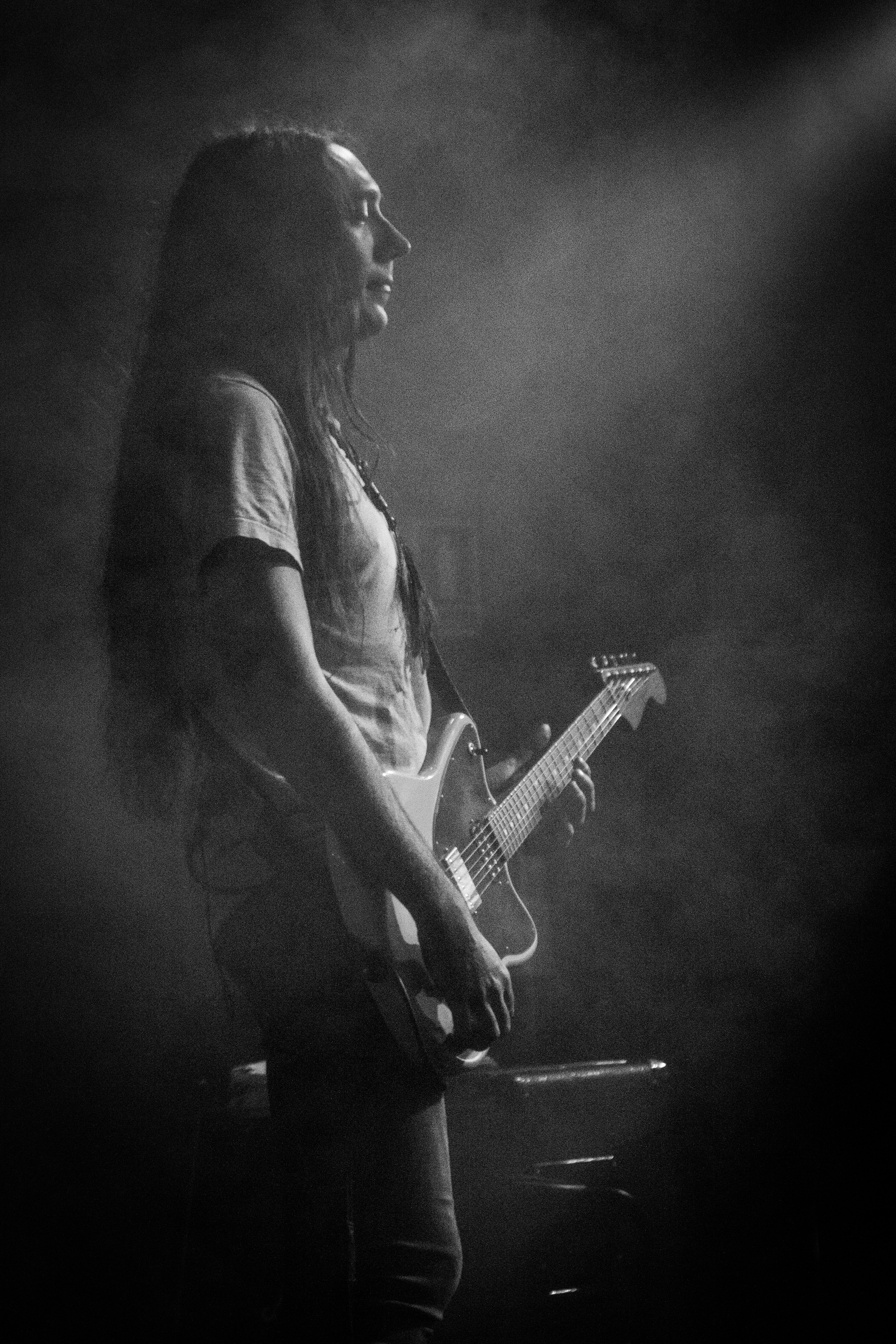 Alcest performing live at A Colossal Weekend 2017, Copenhagen, Denmark